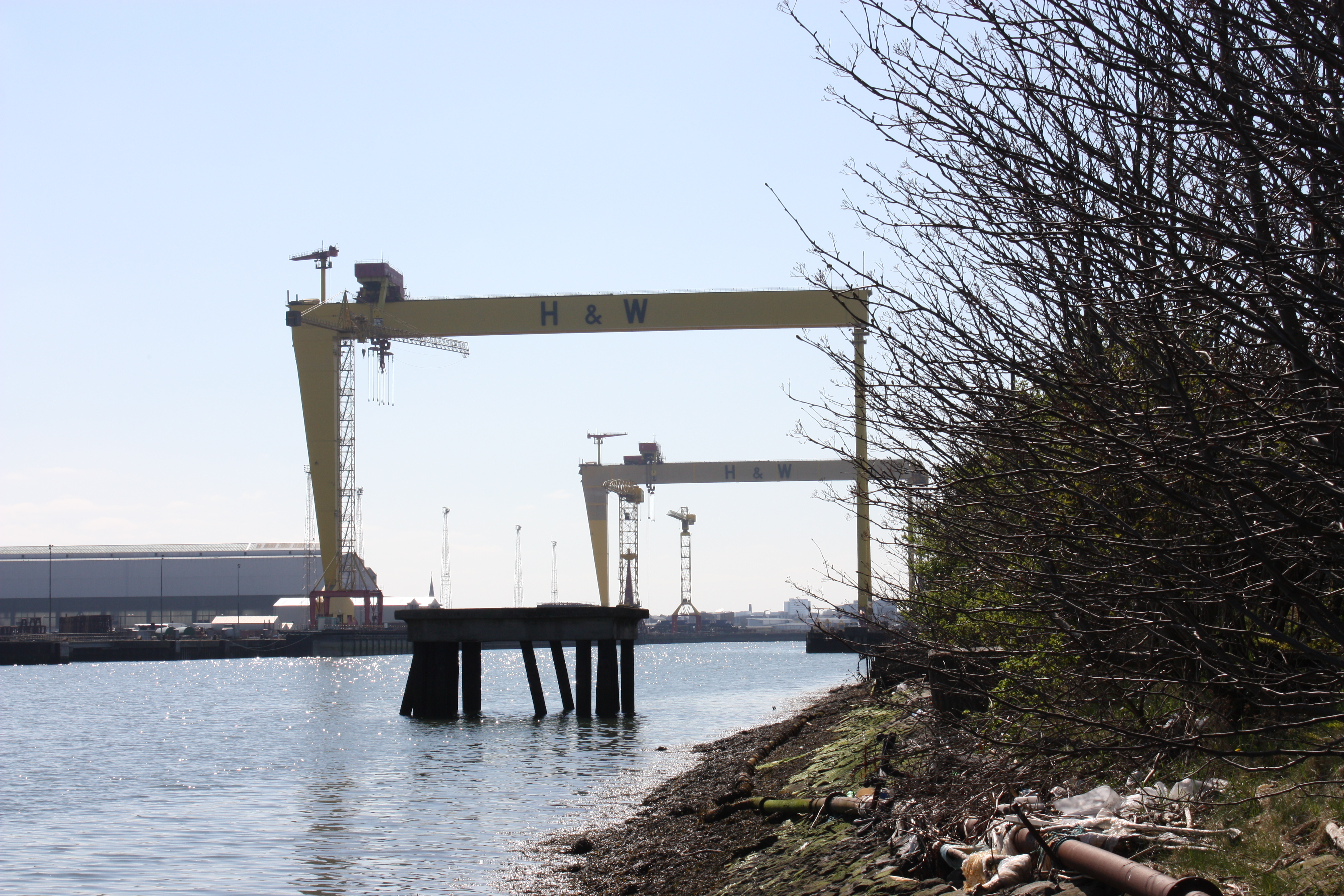 Looking up the Musgrave Channel to the Harland and Wolff cranes, Queen's Island, Belfast, Northern Ireland, April 2010